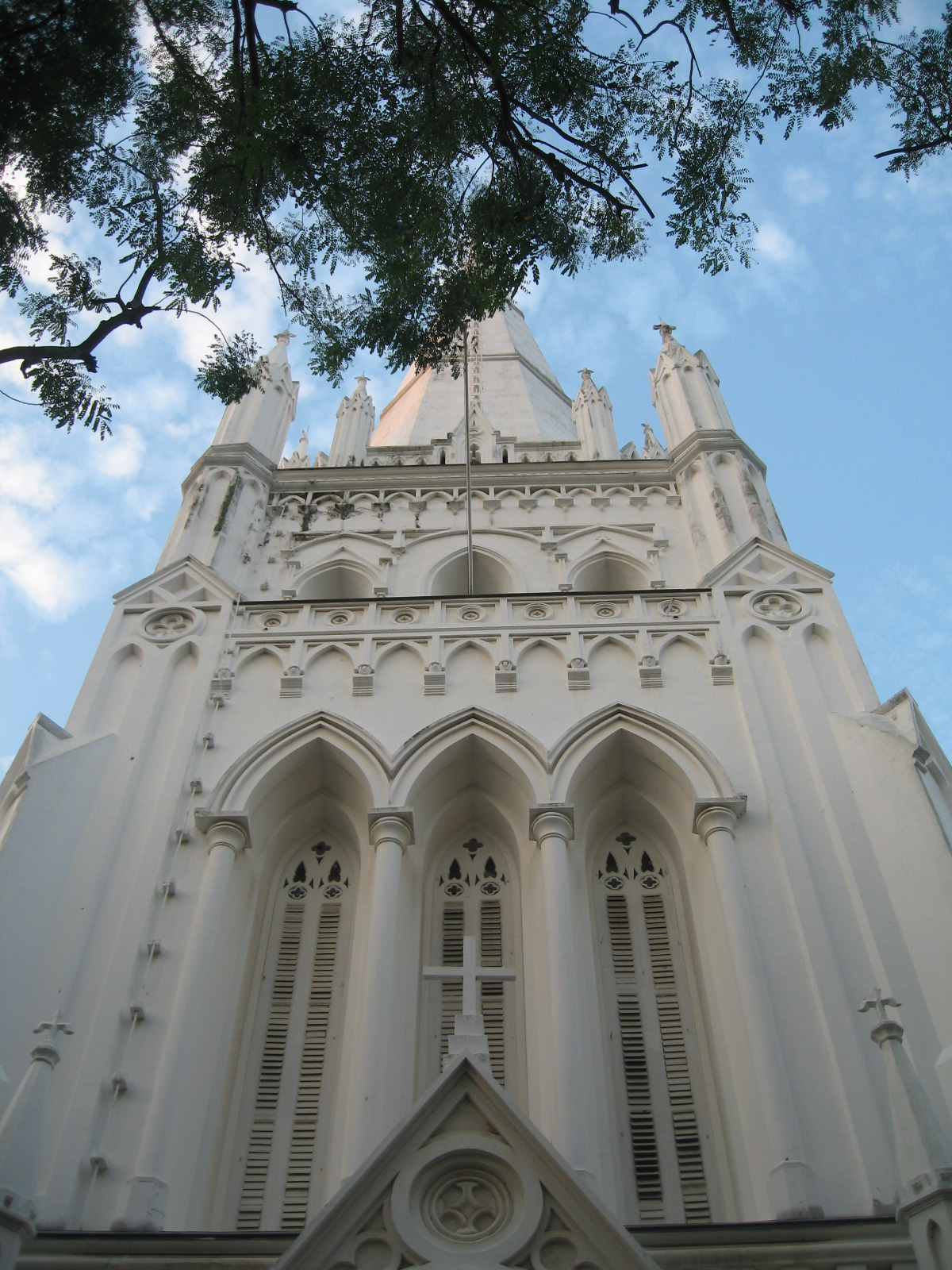 Saint Andrew's Cathedral, Singapore.